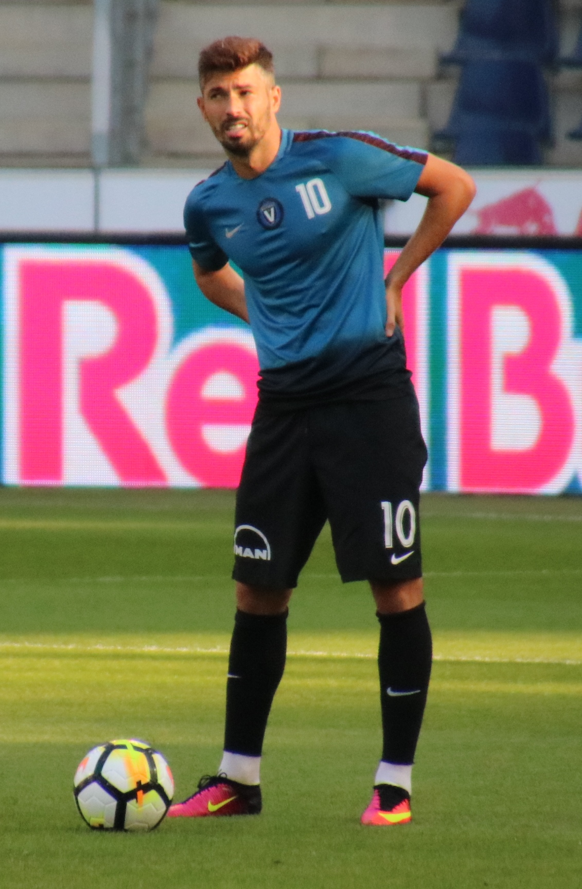 Euroleague play off 2nd leg